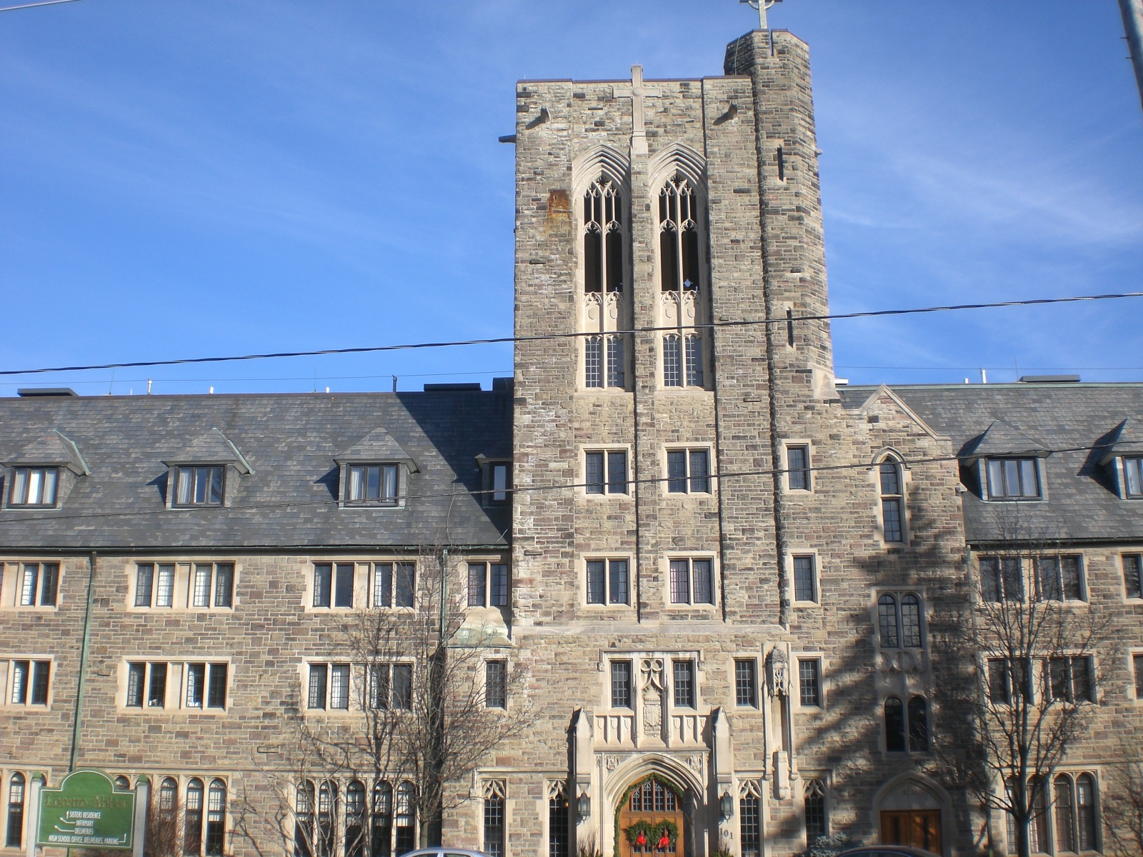 Front entrance of Loretto Abbey, Toronto